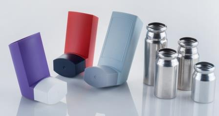 MDI components